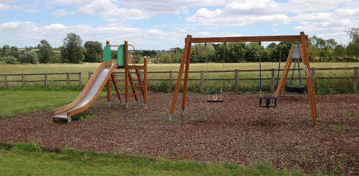 Swing and Slide at the park